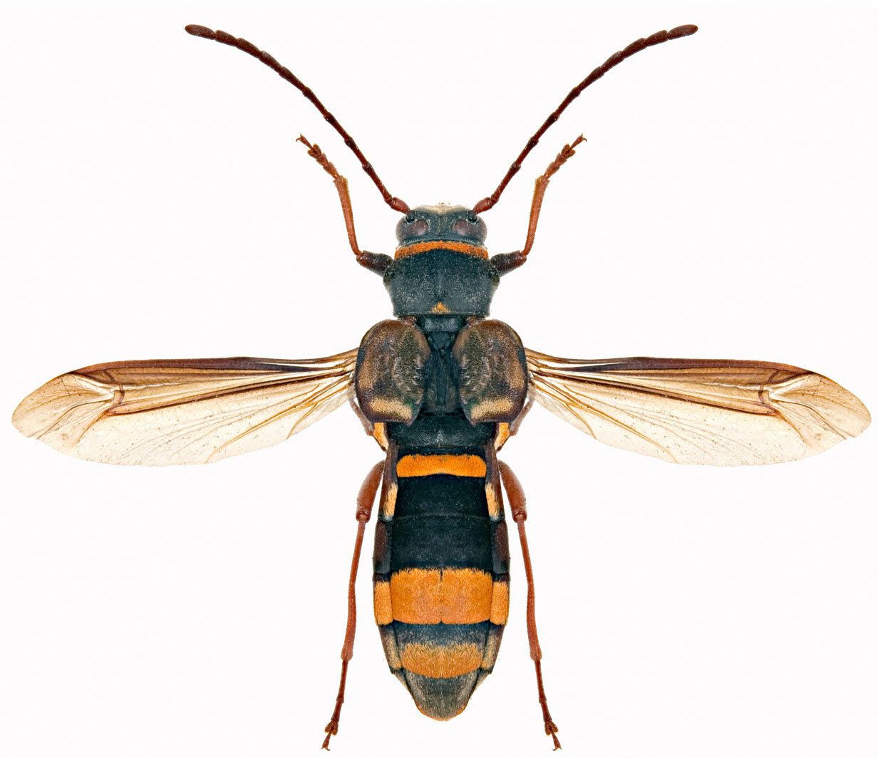 A longhorn beetle, Hesthesis variegata det. F. Vitali, 2019, mimicking a wasp.